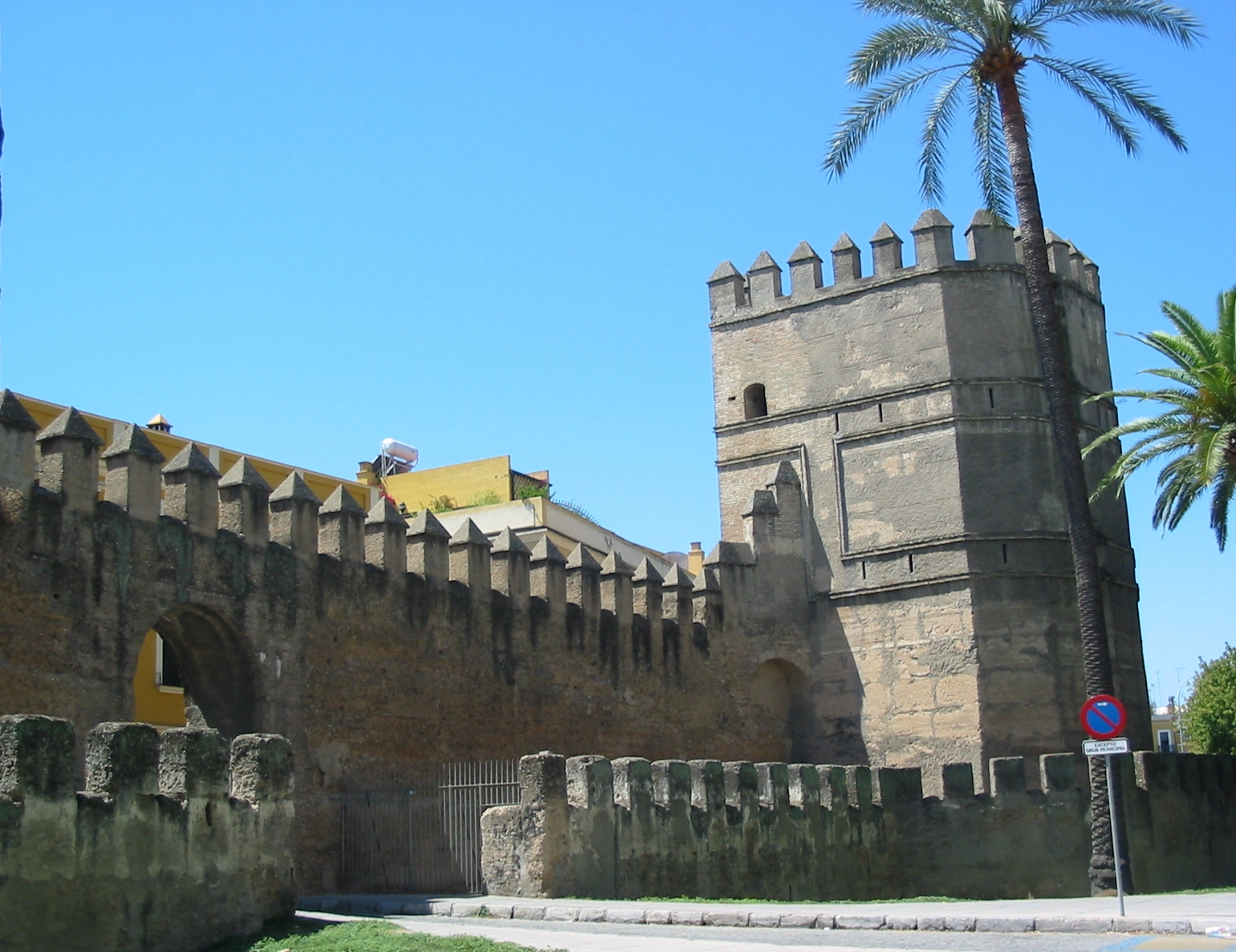 Seville old city walls, near Macarena neighbourhood. Photo by E Asterion u talking to me? 17:59, 30 August 2006 (UTC)